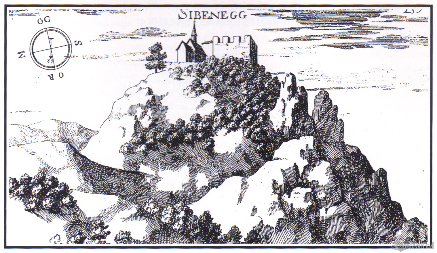 Žebnik Castle